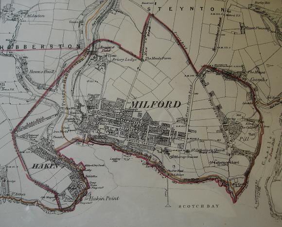 1868 map of "Pembroke - Contributory Borough of Milford"